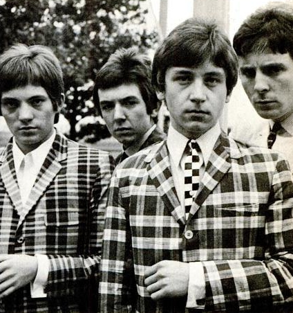 Photo of the rock group the Small Faces. From left-Steve Mariott, Ronnie Lane, Jimmy Winston, Kenney Jones.